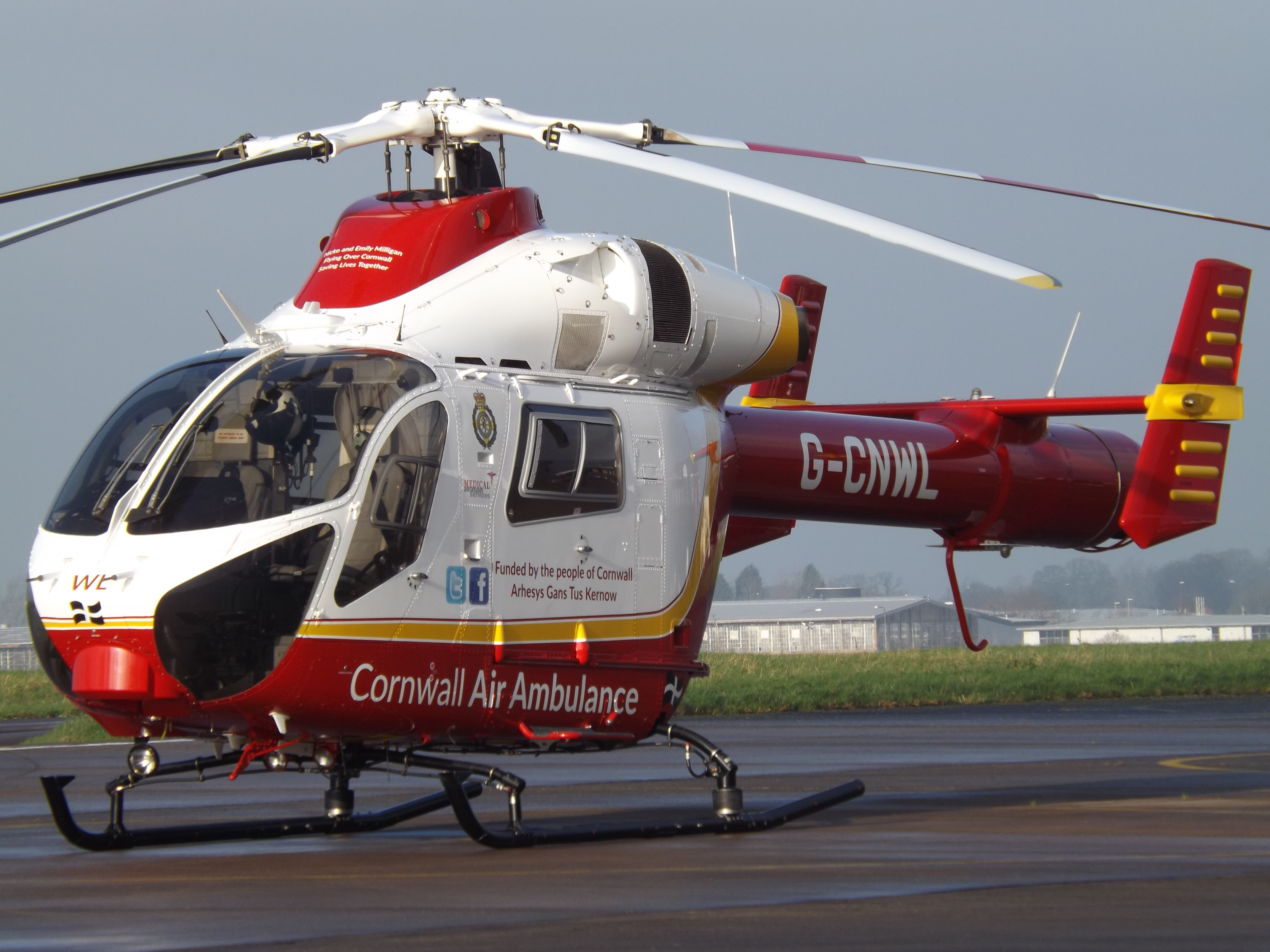 At Gloucestershire Airport.